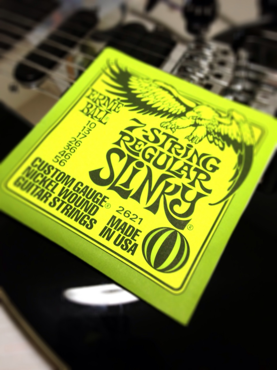 A pack of 7 strings Regular Slinky by Ernie Ball